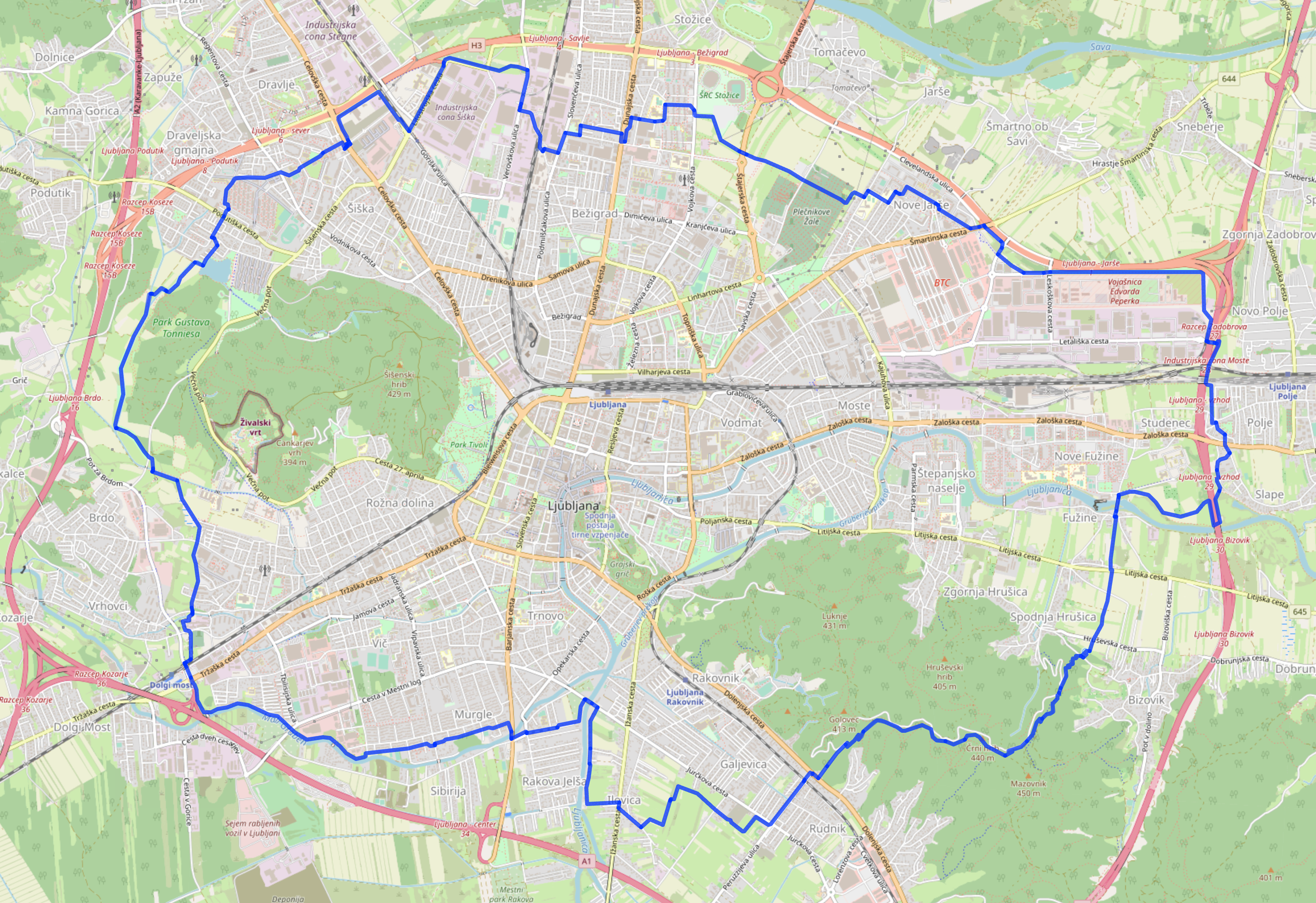 The Trail of Remembrance and Comradeship (Pot spominov in tovarištva, acronym PST), also referred to as the Trail Along the Wire (Pot ob žici), the Trail Around Ljubljana (Pot okoli Ljubljane), or the Green Ring (Zeleni prstan), is a gravel-paved recreational and memorial walkway almost 33 km (21 mi) long and 4 m (13 ft) wide around the city of Ljubljana, the capital of Slovenia.